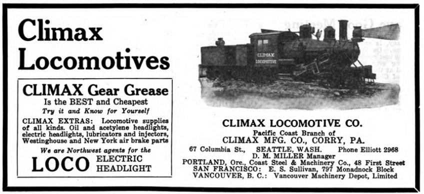 Advertisement of the Pacific Coast Branch of the Climax Manufacturing Company.